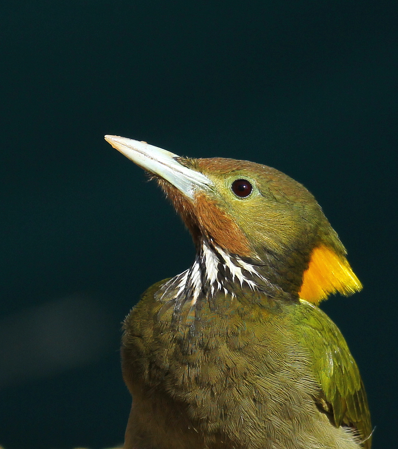 Greater Yellownape Chrysophlegma flavinucha. One of those big woodpeckers!